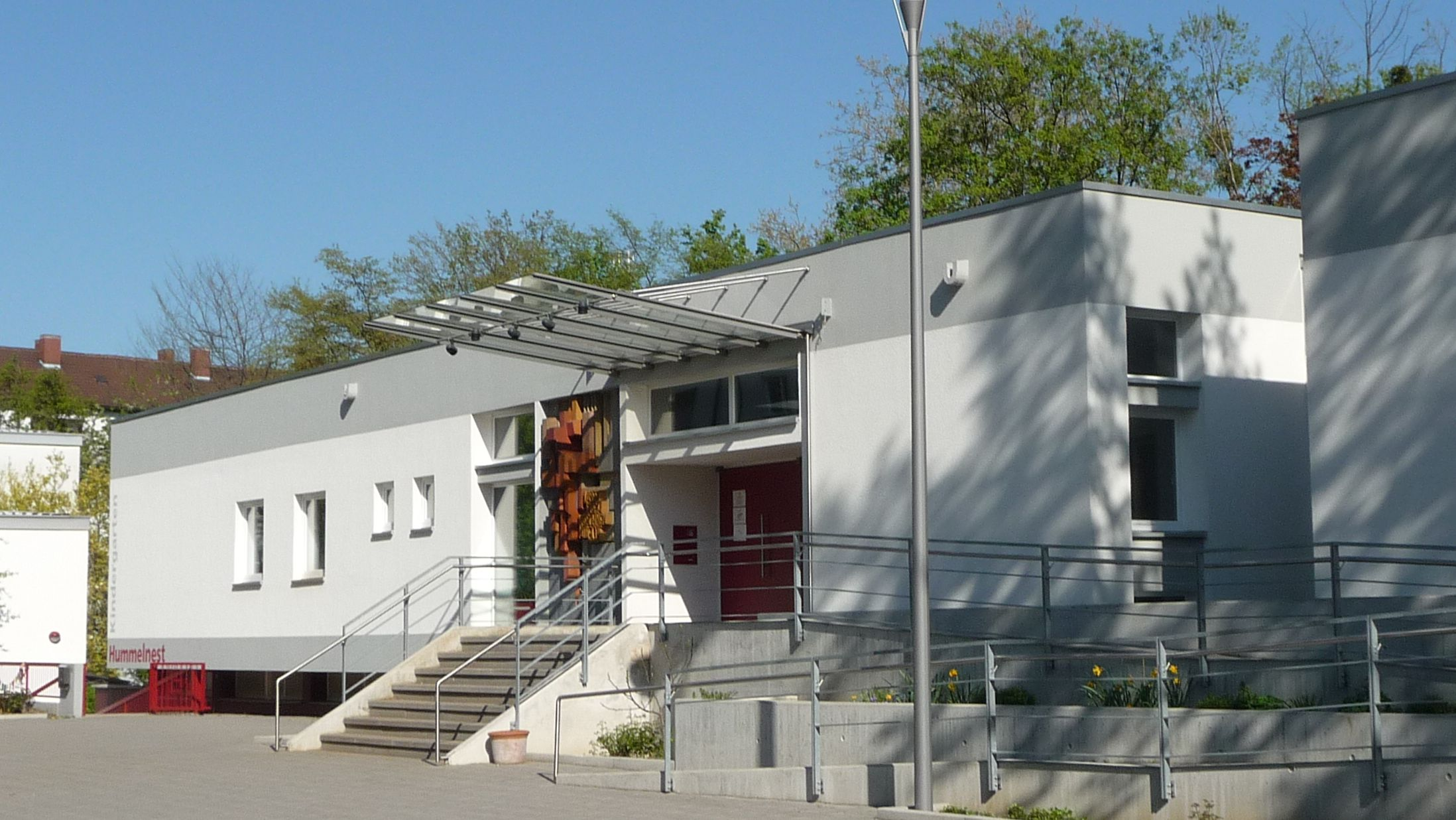 Churches in Ludwigshafen